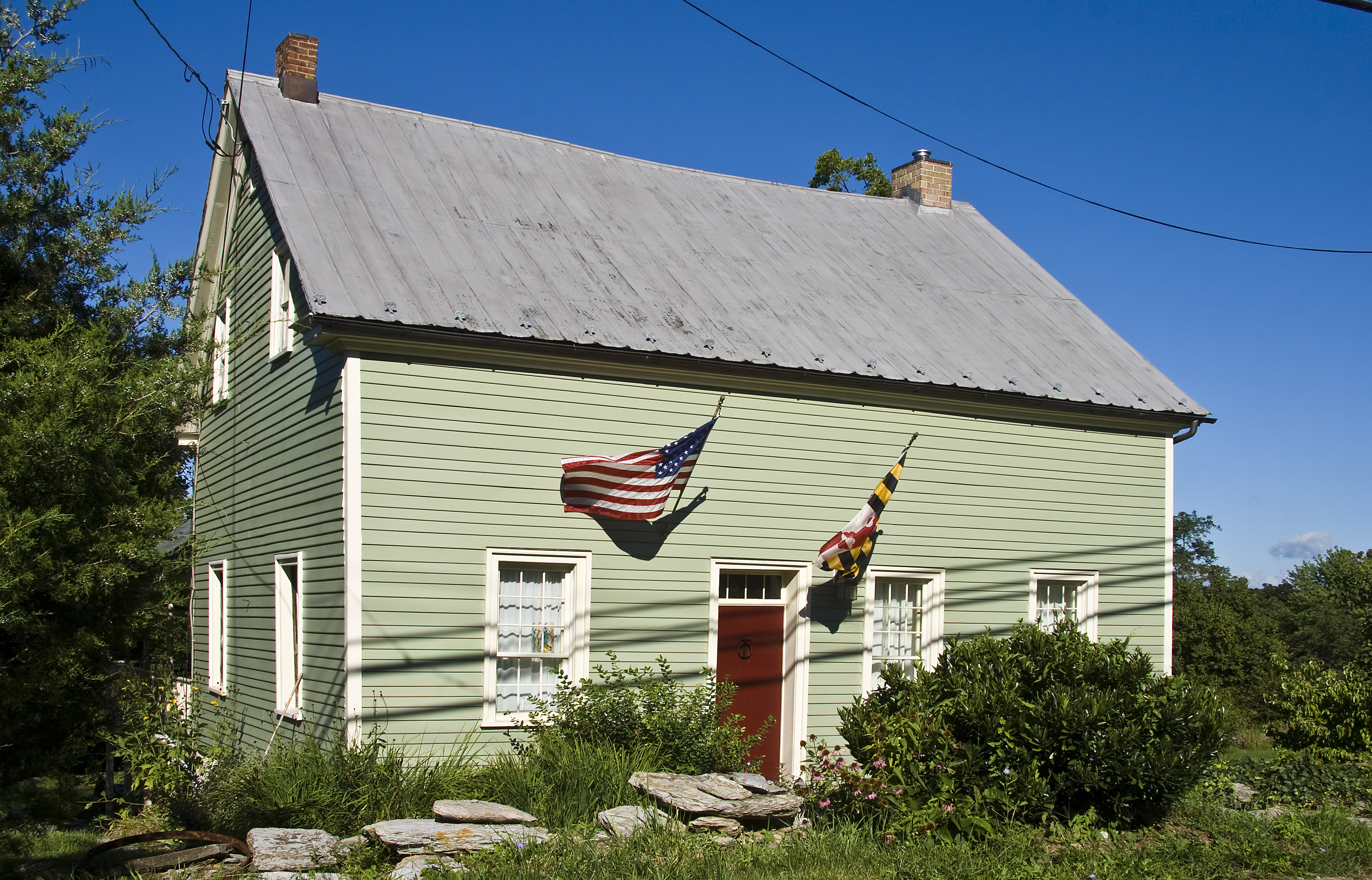 Hills, Dales and the Vinyard house, Keedysville, Maryland, USA front elevation of frame section